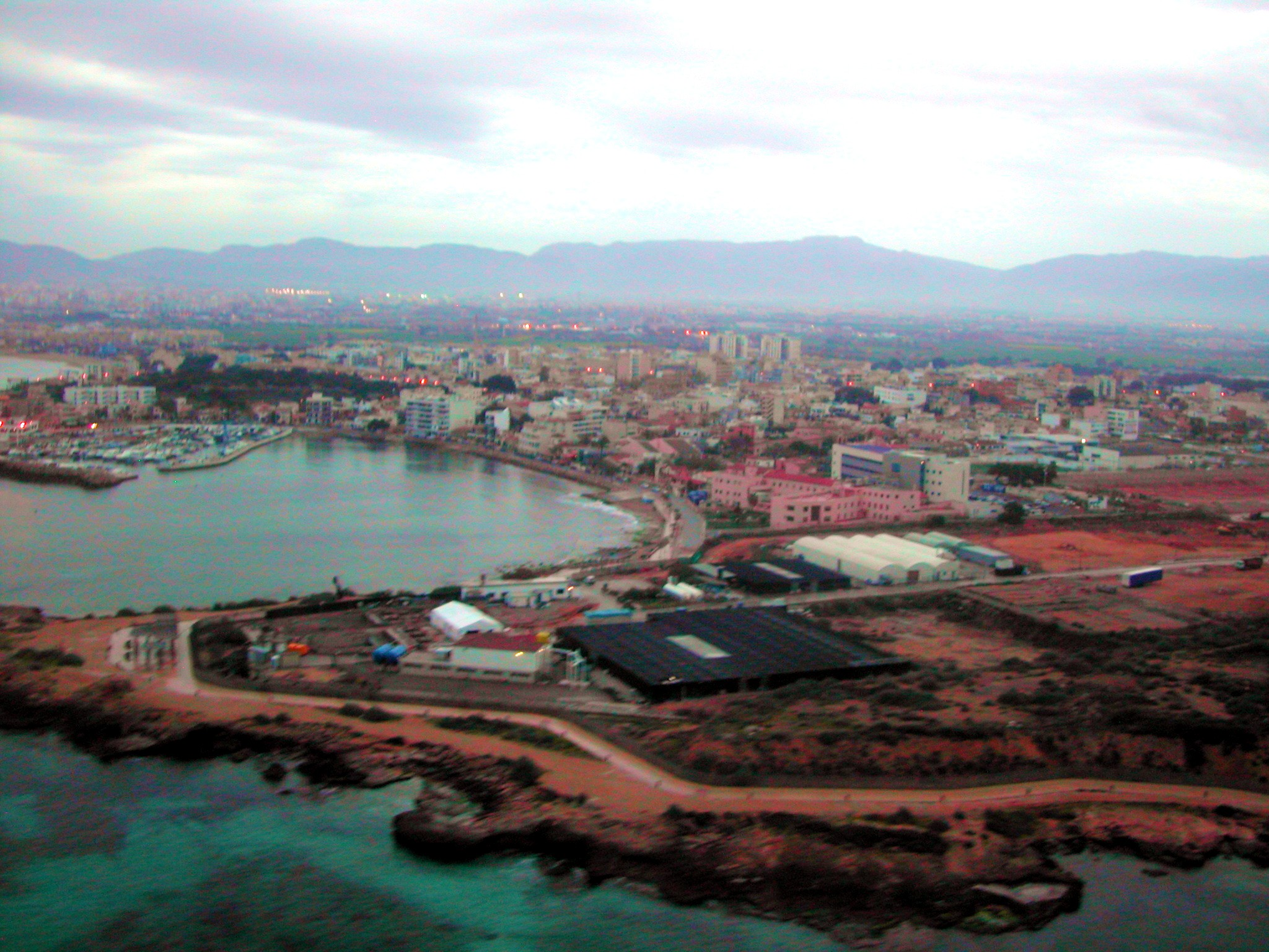 Cala Gamba aerial view, Coll d'en Rebassa station.